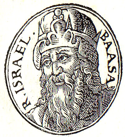 Baasha of Israel was the third king of the northern Israelite Kingdom of Israel.